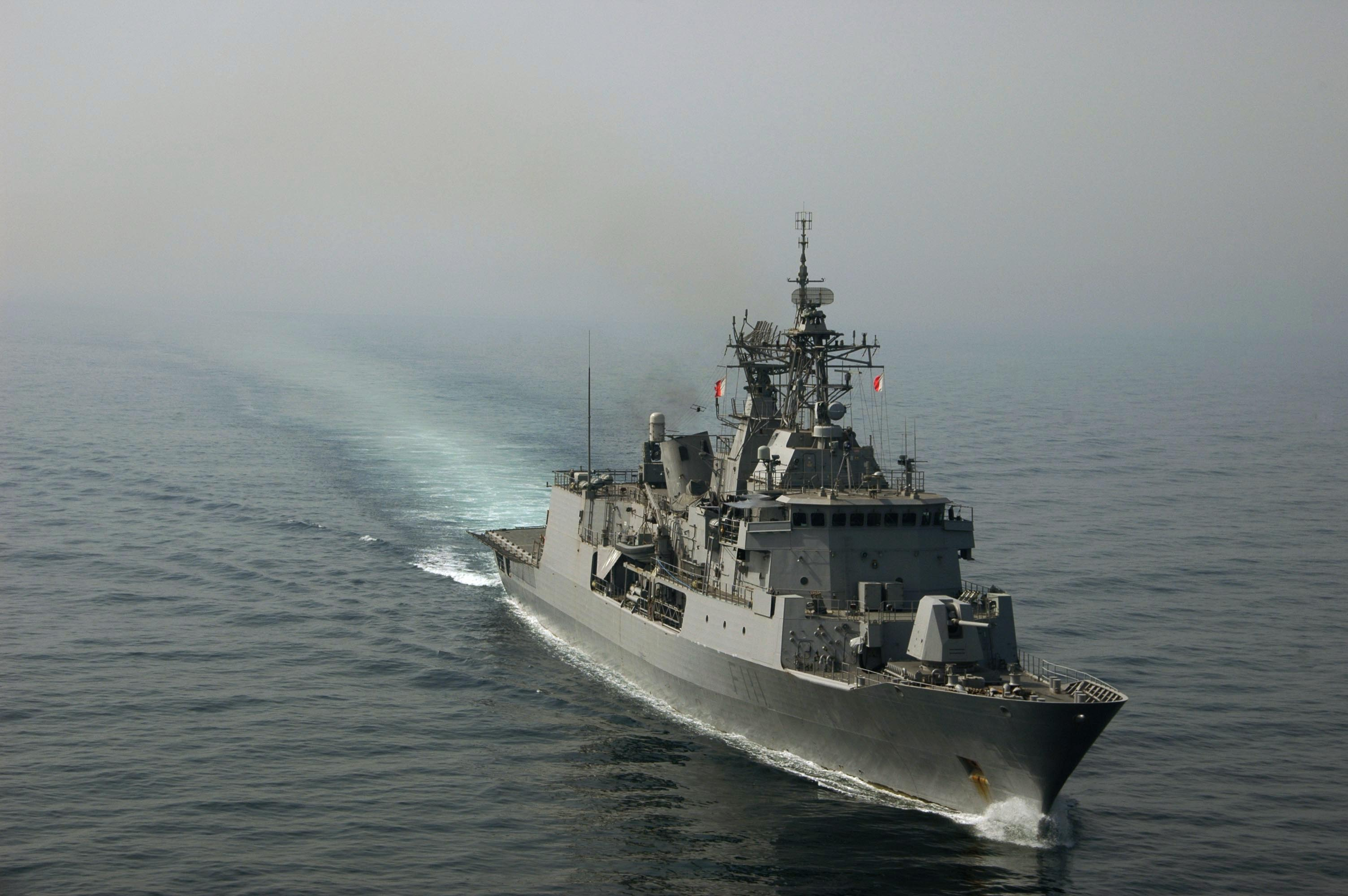 080527-N-8539M-940 PERSIAN GULF (May 27, 2008) The New Zealand Anzac class ship HMZNS Te-Mana (F 111) steams in the Persian Gulf supporting Operation Stakenet, a Combined Task Force 152 operation focused on ensuring a lawful maritime order in the Persian Gulf and involved units from Bahrain, New Zealand, U.K., the U.S. and other regional countries.